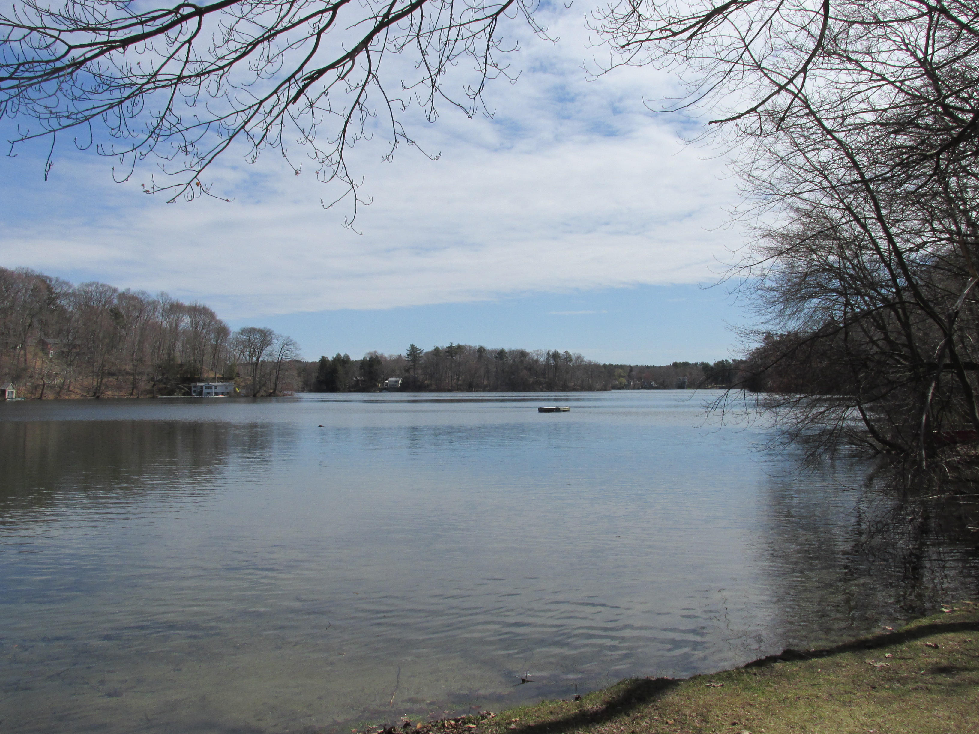 Dudley Pond, Cochituate Massachusetts - 2013